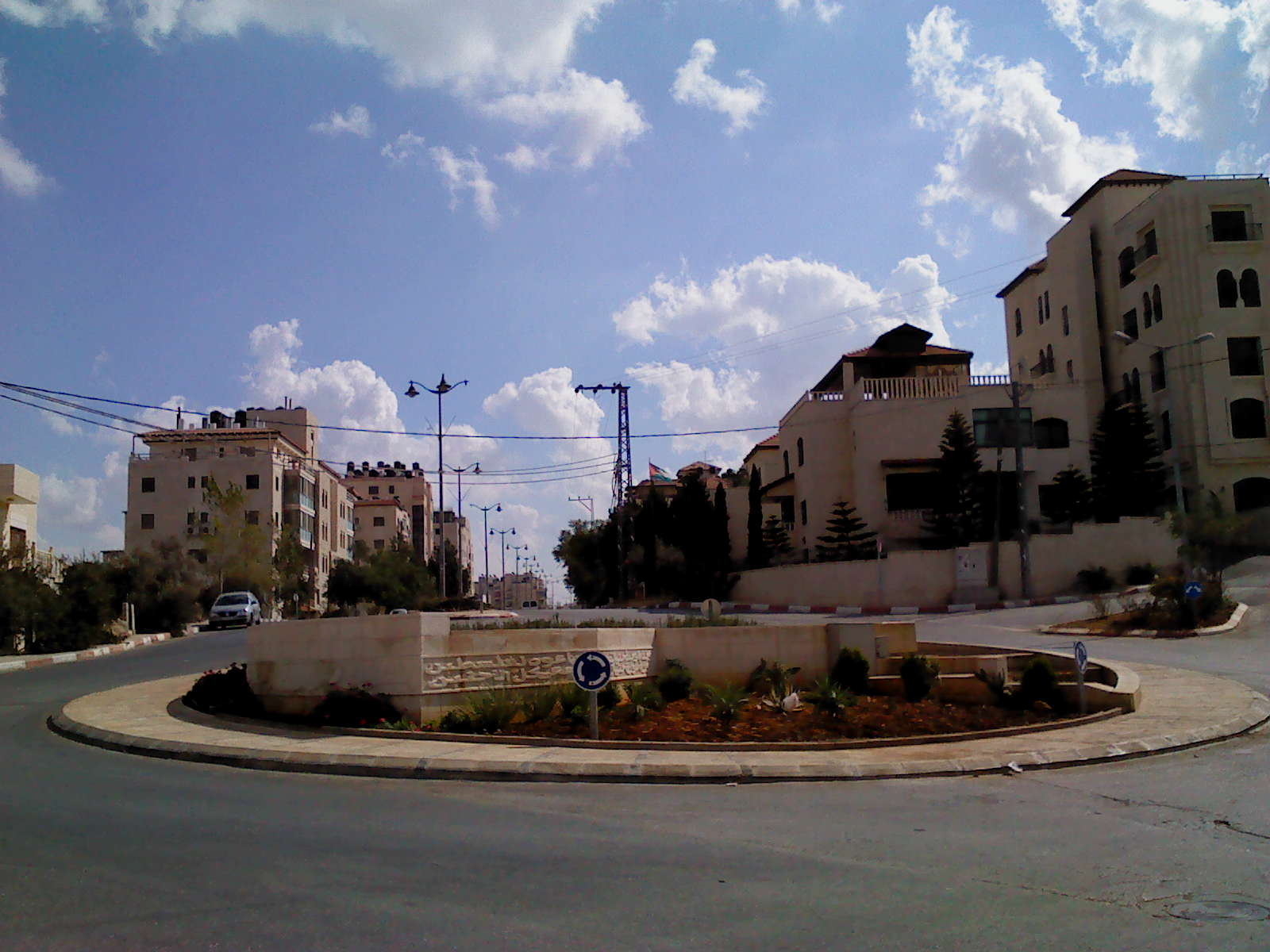 George Habbash square, Ramallah